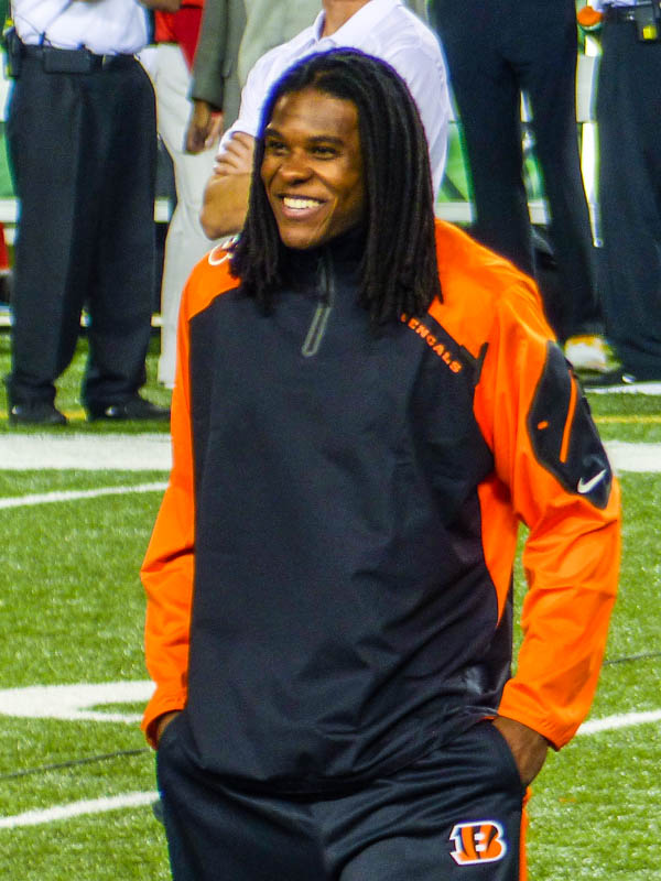 Before Monday Night Football game vs the Pittsburgh Steelers, September 17, 2013